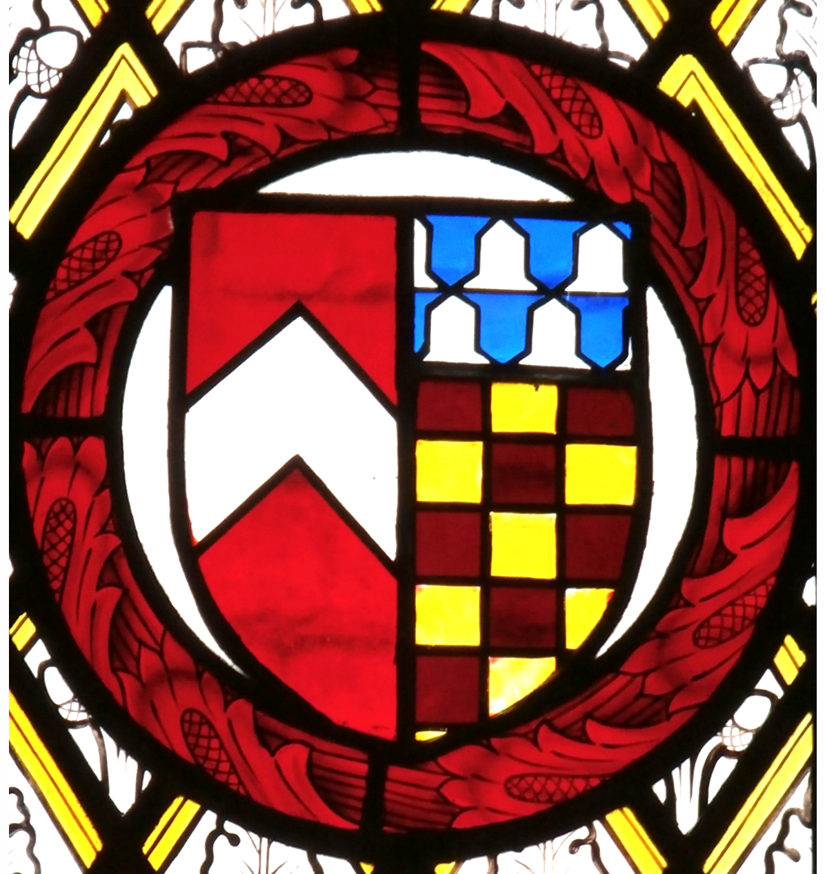 Francis VI Fulford (1704-1749), Sheriff of Devon in 1744. Arms of Fulford (Gules, a chevron argent) impaling Chichester (Chequy or and gules, a chief vair), east window of Fulford Chapel in Dunsford Church, Devon, representing the marriage of Francis VI Fulford (1704-1749) of Great Fulford, Sheriff of Devon in 1744, and Ann Chichester, a daughter of Sir Arthur Chichester, 3rd Baronet (d.1717), MP for Barnstaple of Youlston Park, Shirwell, Devon.